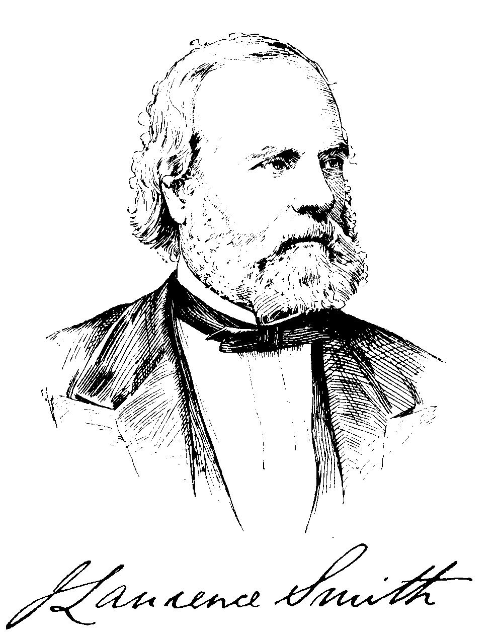 John Lawrence Smith